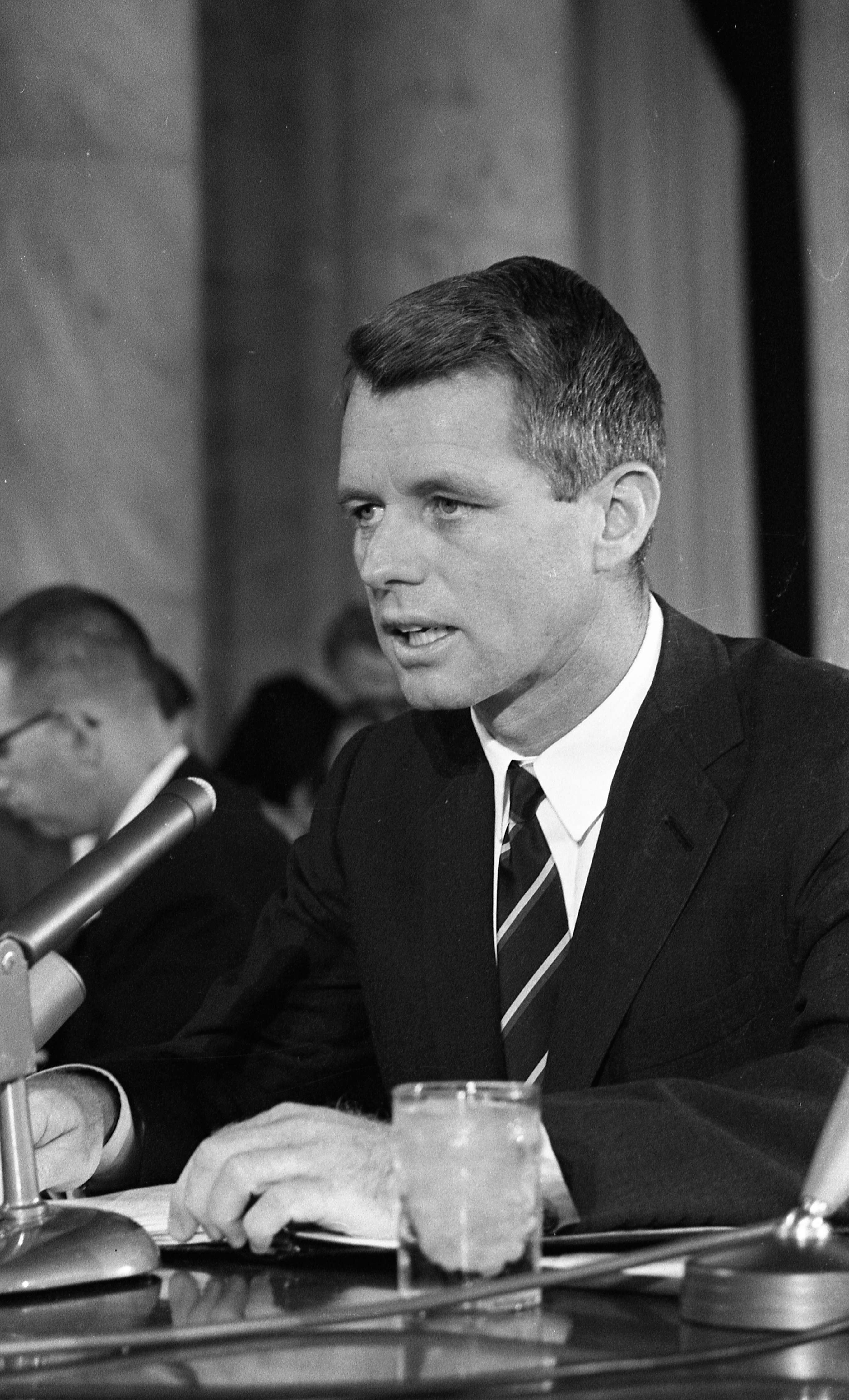 Attorney General Robert F. Kennedy testifying before the Senate Committee on Government Operations' Permanent Subcommittee on Investigations about organized crime, part of a series of hearings titled "Organized Crime and Illicit Traffic in Narcotics". This was followed shortly by the Valachi hearings.